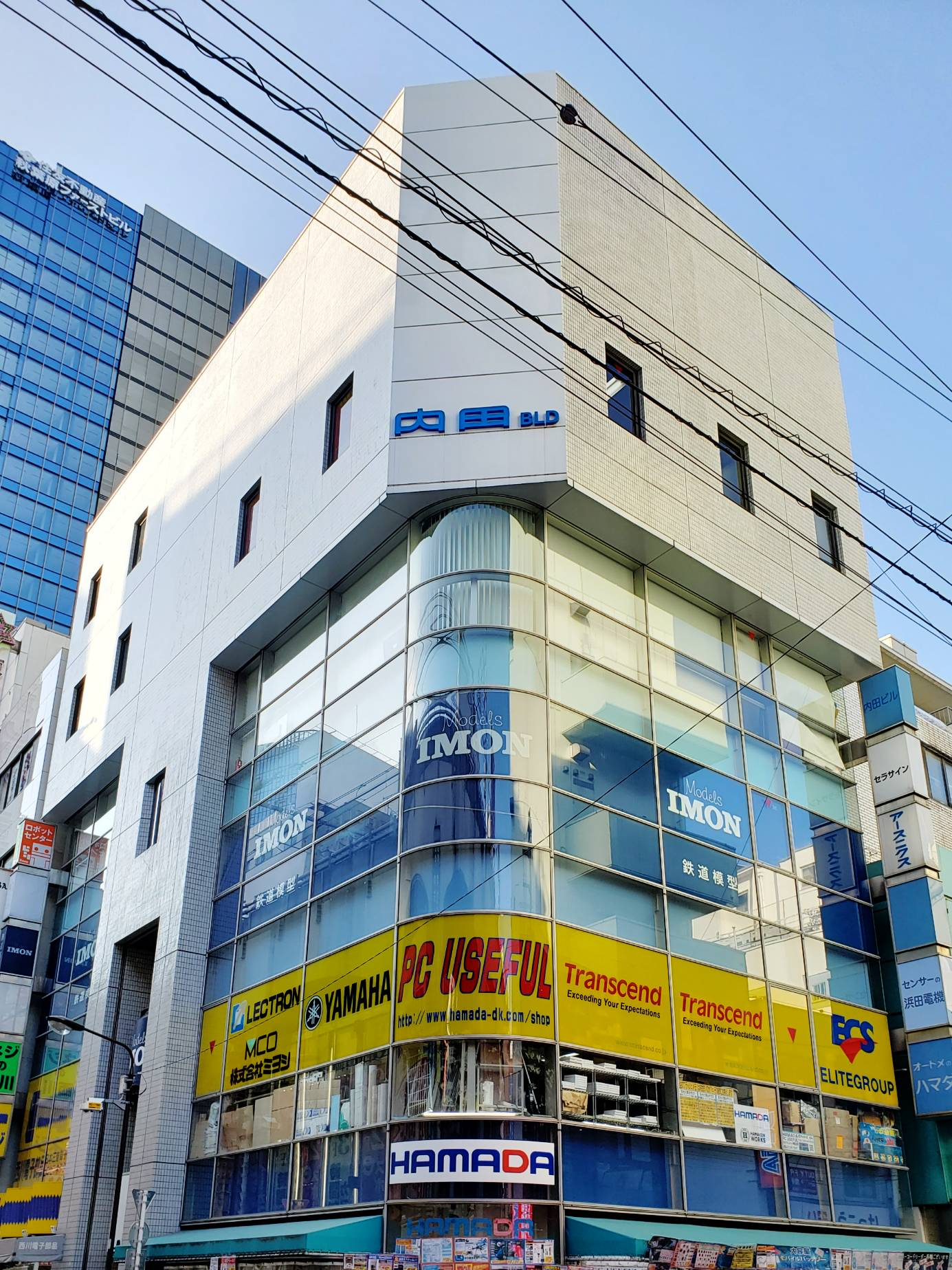 Uchida Building (Akihabara).